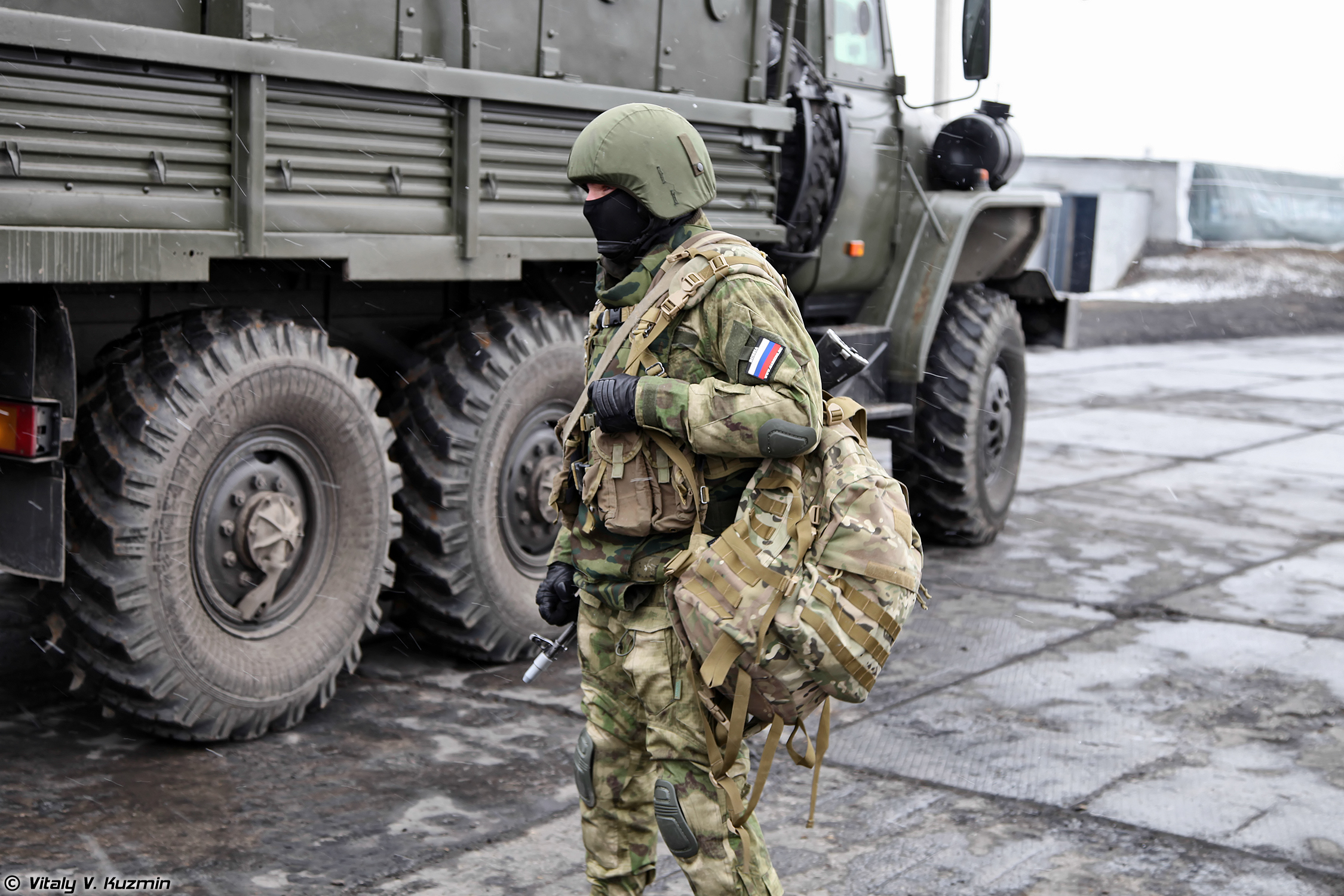 Operator from the 604th Special Purpose Center of the Internal Troops of the MIA of the RF